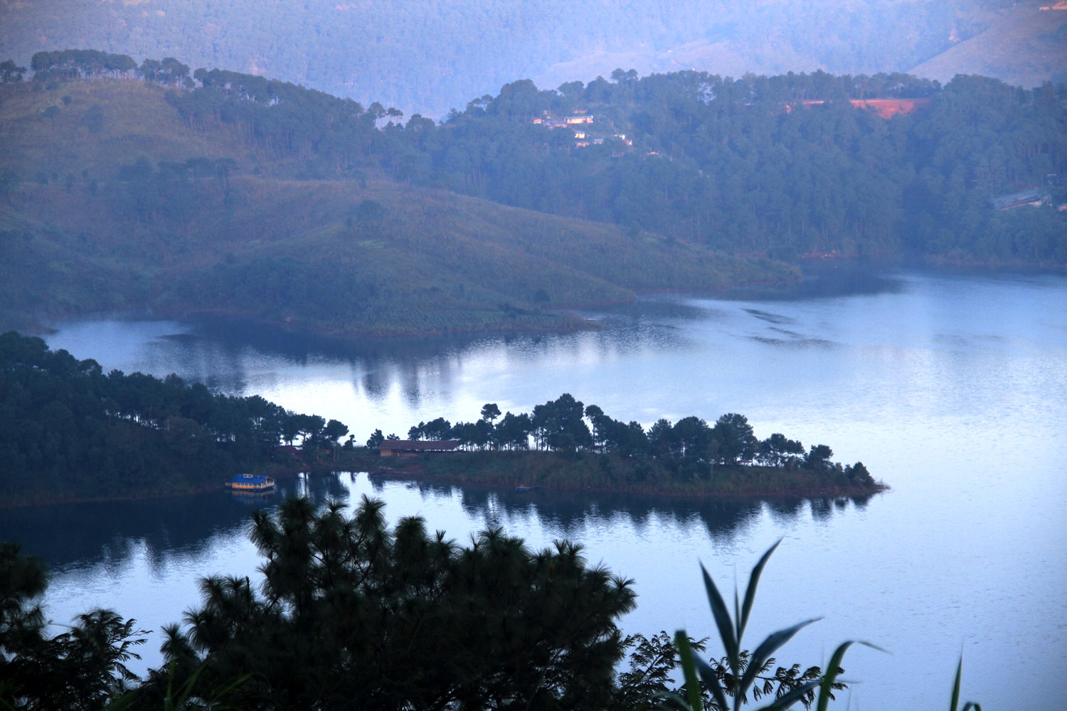 Umiam Lake is a reservoir located in the hills 15 km to the North of Shillong in the state of Meghalaya, India. It was created by damming the Umiam river in the early 1960s. The principal catchment area of the lake and dam is spread over 220 square km.